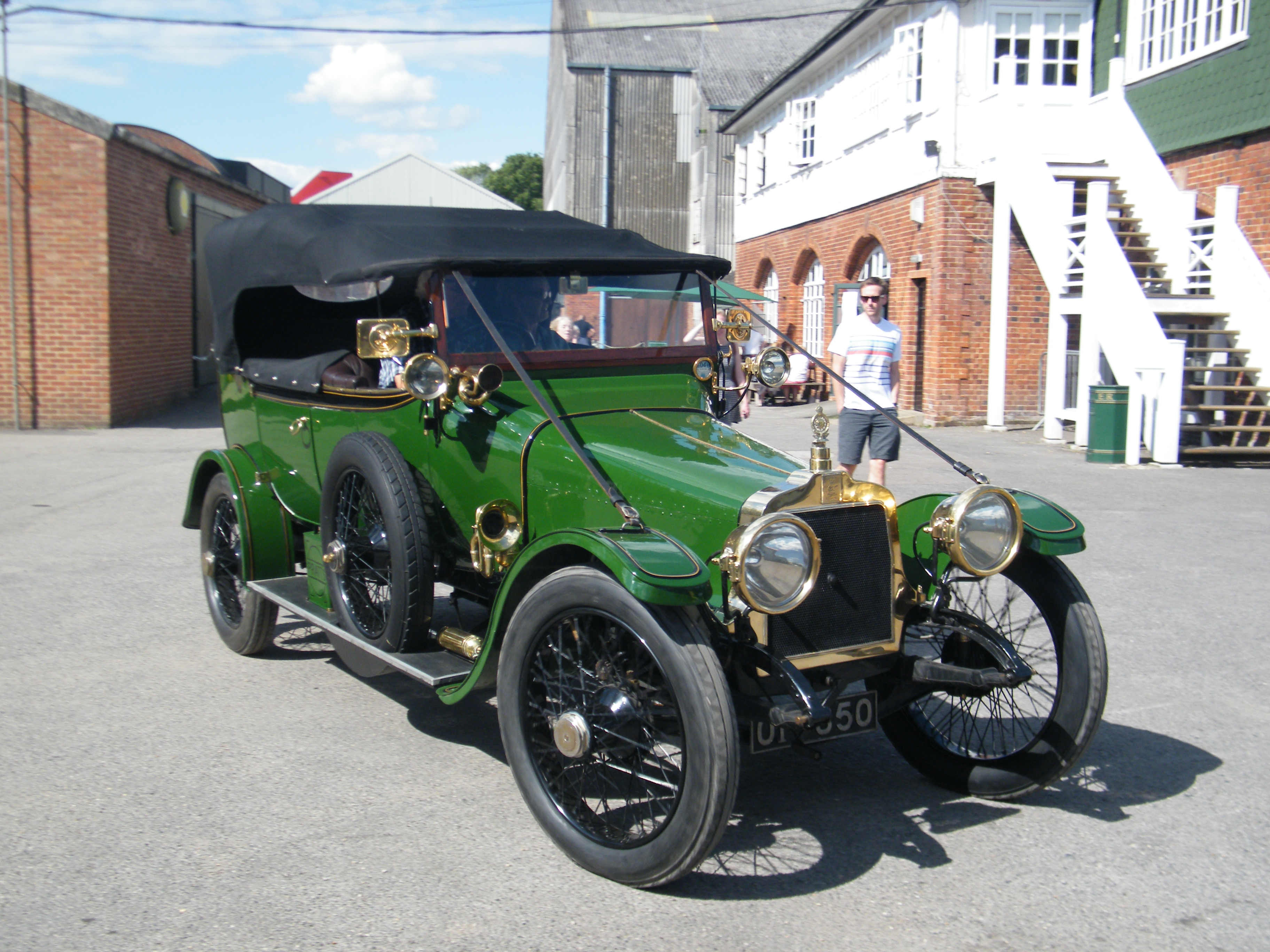 1913 Talbot 6CT 20hp (six-cylinder 3614 cc) tourer Great War 100 Brooklands Weybridge 3 August 2014 Registration no. OI 650 Chassis no. 4137 Engine no. 137 source of information